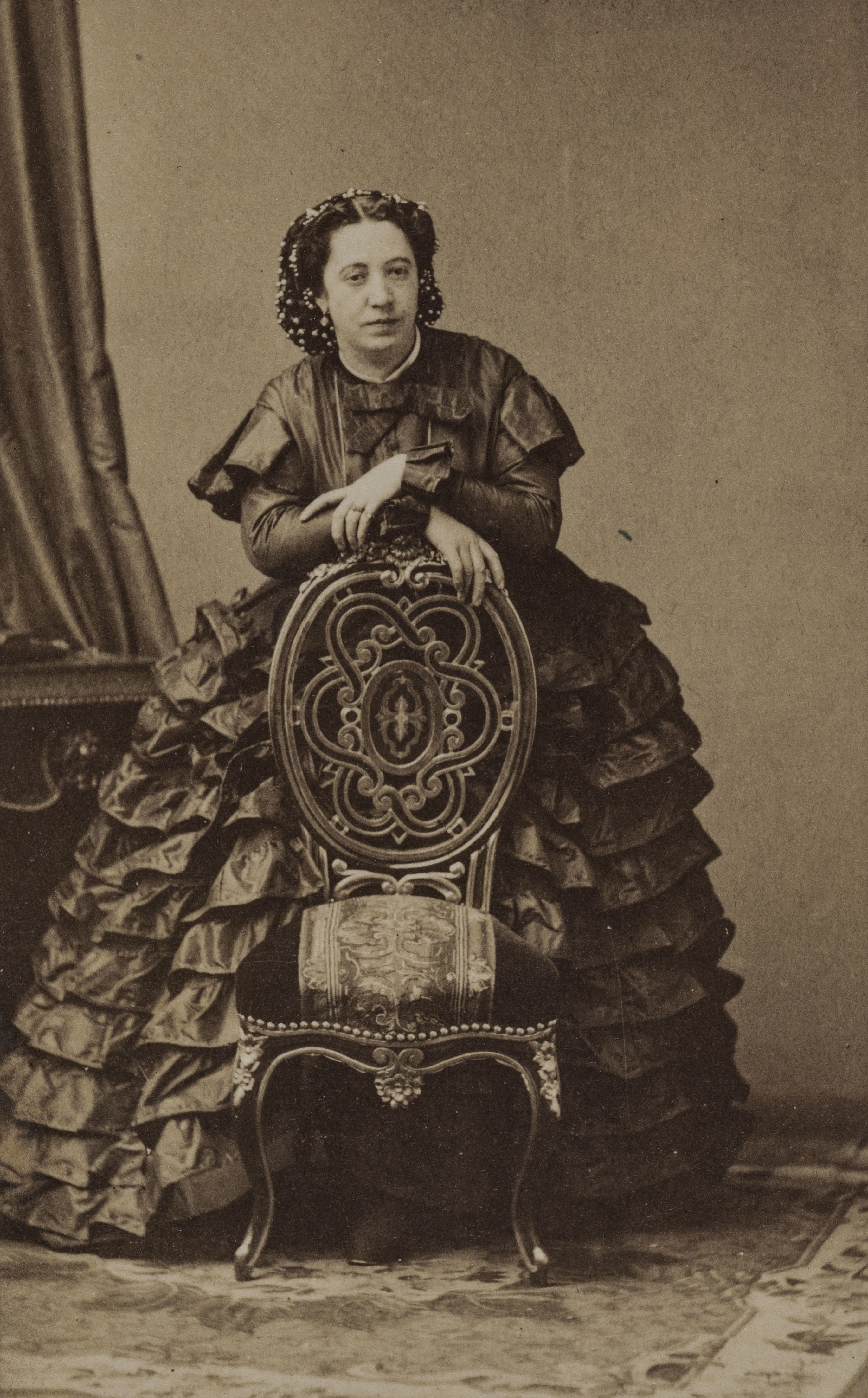 Portrait de Madame Disdéri, Geneviève-Élisabeth, (1817?-1878), (ép. de Disdéri). Photographie de Disdéri & Cie. Carte de visite (recto). Tirage sur papier albuminé. 1870-1890. Paris, musée Carnavalet.